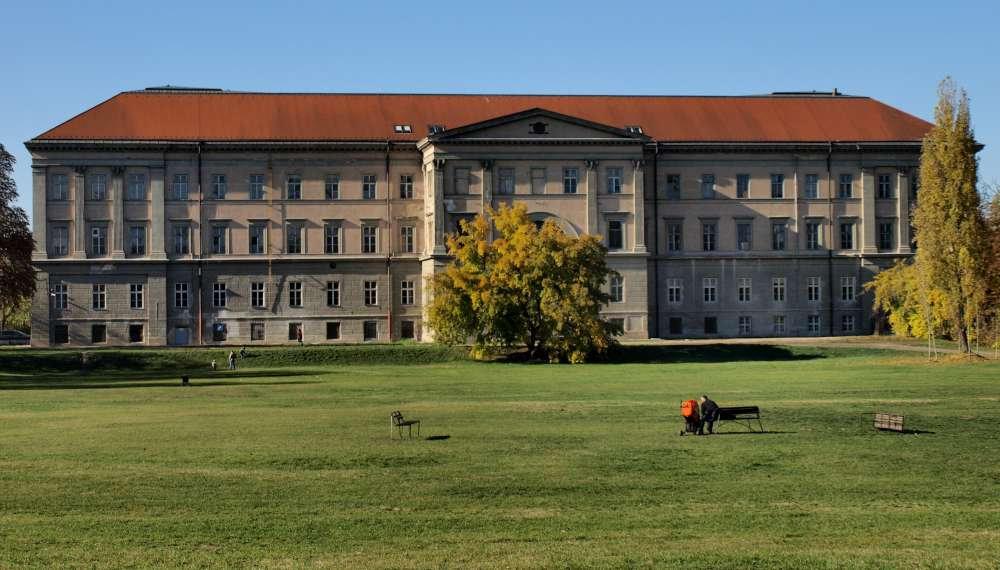 Building of the Royal Hungarian Ludovica Academy of Military by Mihály Pollack (often called Ludovica Academy or Ludoviceum, nowadays building of the Hungarian Natural History Museum)